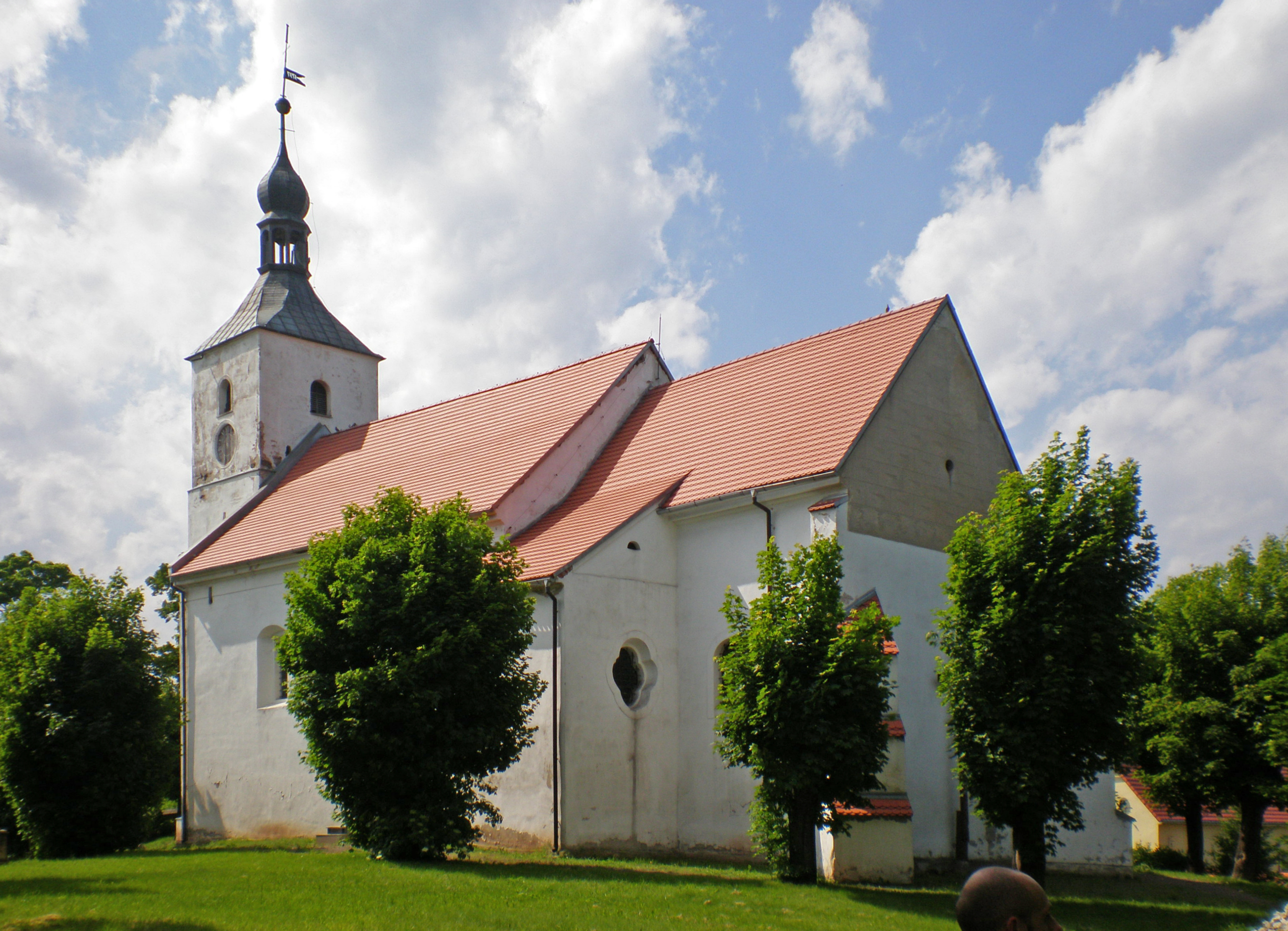 Dobromierz - Christian Church